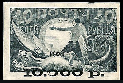 Stamp of Soviet Russia (RSFSR), "Proletarian Freed" ("Russia New Triumphant"), 1922, overprinted, 10,000 rubles. CPA #18.